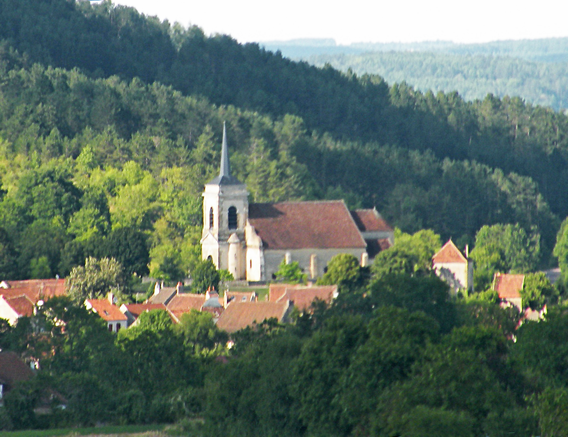 Saint-Jacques-le-Majeur church of Asquins, a world heritage building. View from the south.